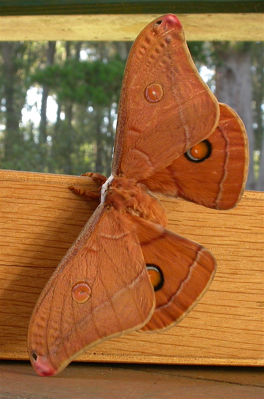 Opodiphthera helena (White, 1843), male, to MV light, Blackheath, NSW, 15/16 January 2009